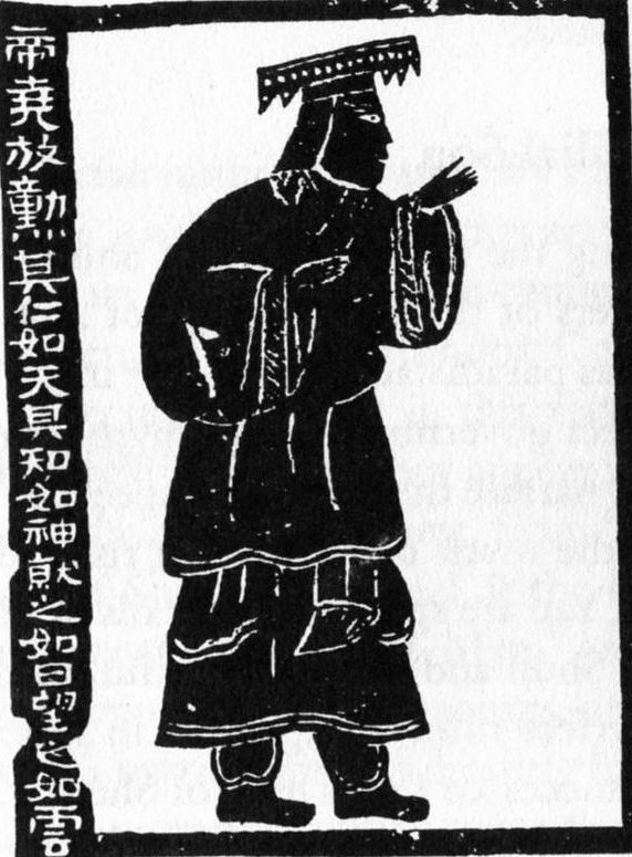 Emperor Yao, one of the mythical Five Sovereigns. Inscription reads: The God Yao, Fang Xun, was humane like Heaven itself, and wise like a divine being; to be near him was like approaching the sun, to look at him was like gazing into clouds'(Birrell, Chinese Mythology, ISBN 0-8018-6183-7, p.71)